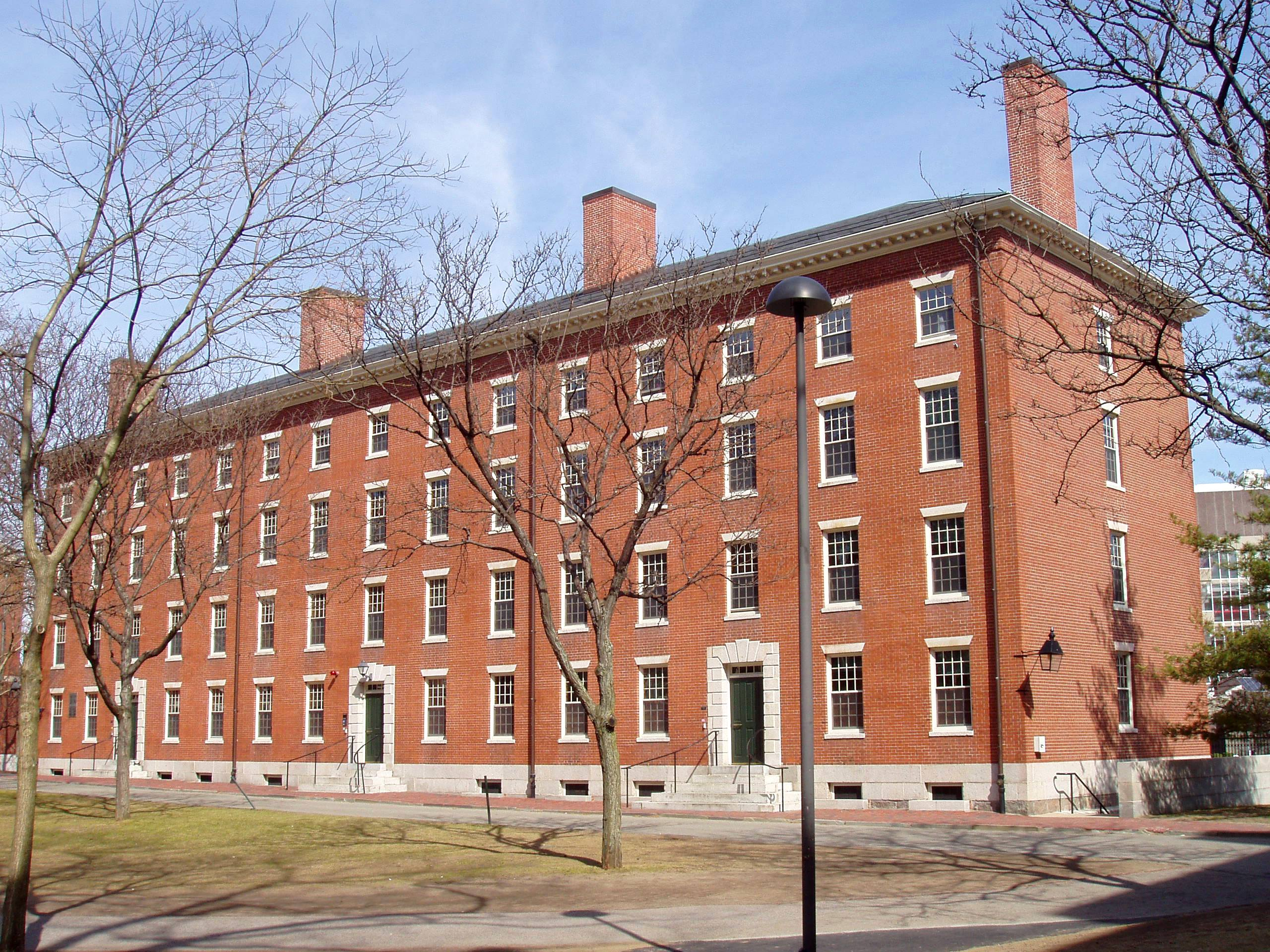 Holworthy Hall, Harvard University, Cambridge, Massachusetts, USA.